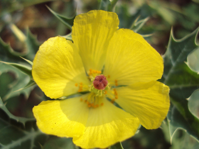 flowers